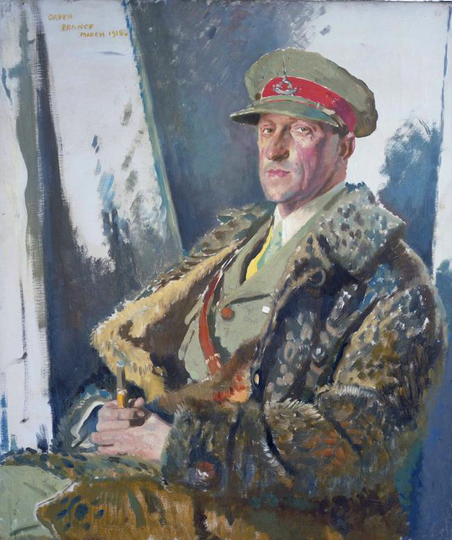 Prince Antoine d'Orleans et Braganza, MC oil on canvas 91,4 x 76,2 cm signed t.l.: Orpen / France / March 1918.